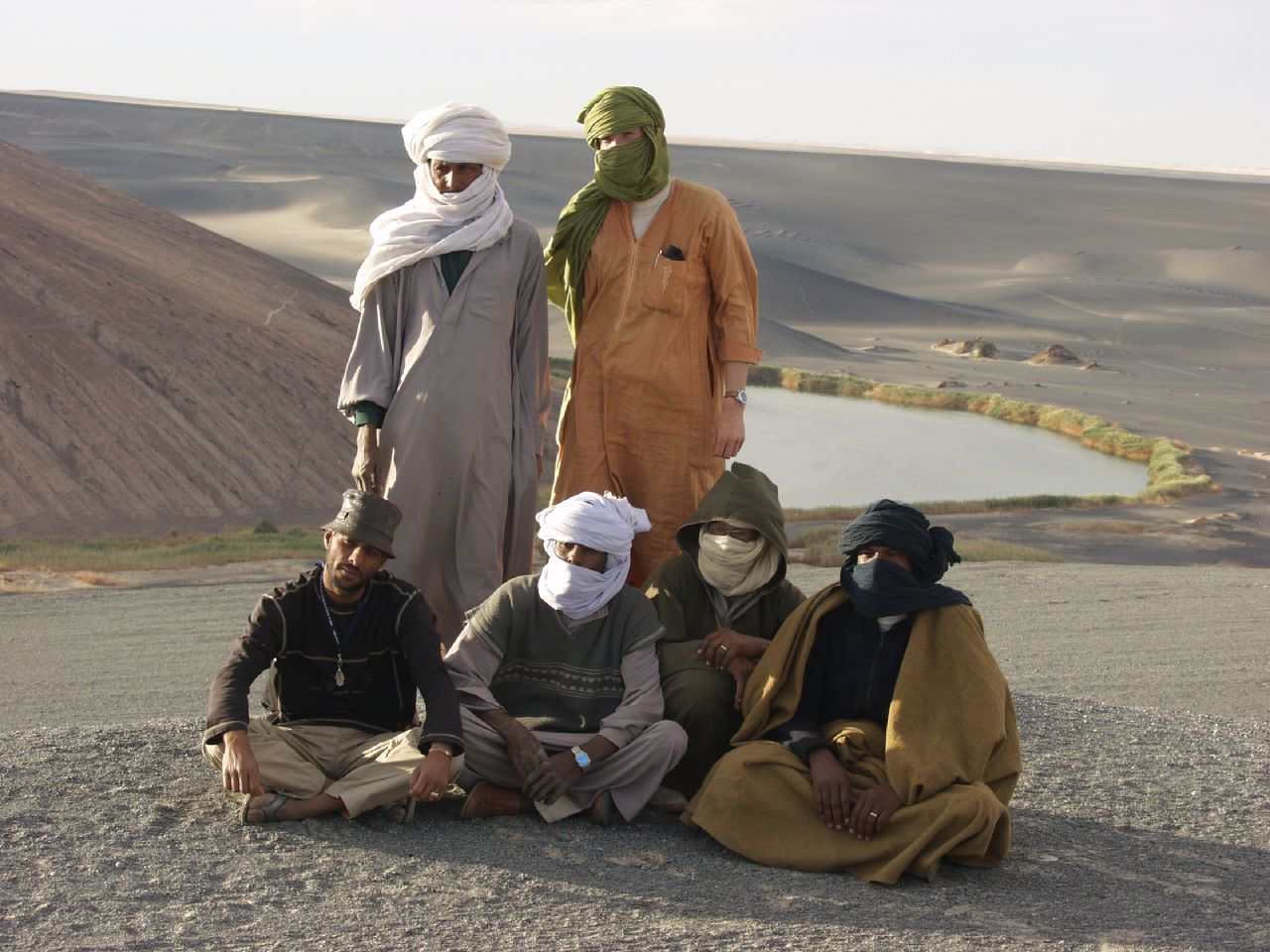 Tuareg Berbers in the Namus desert, Libya.